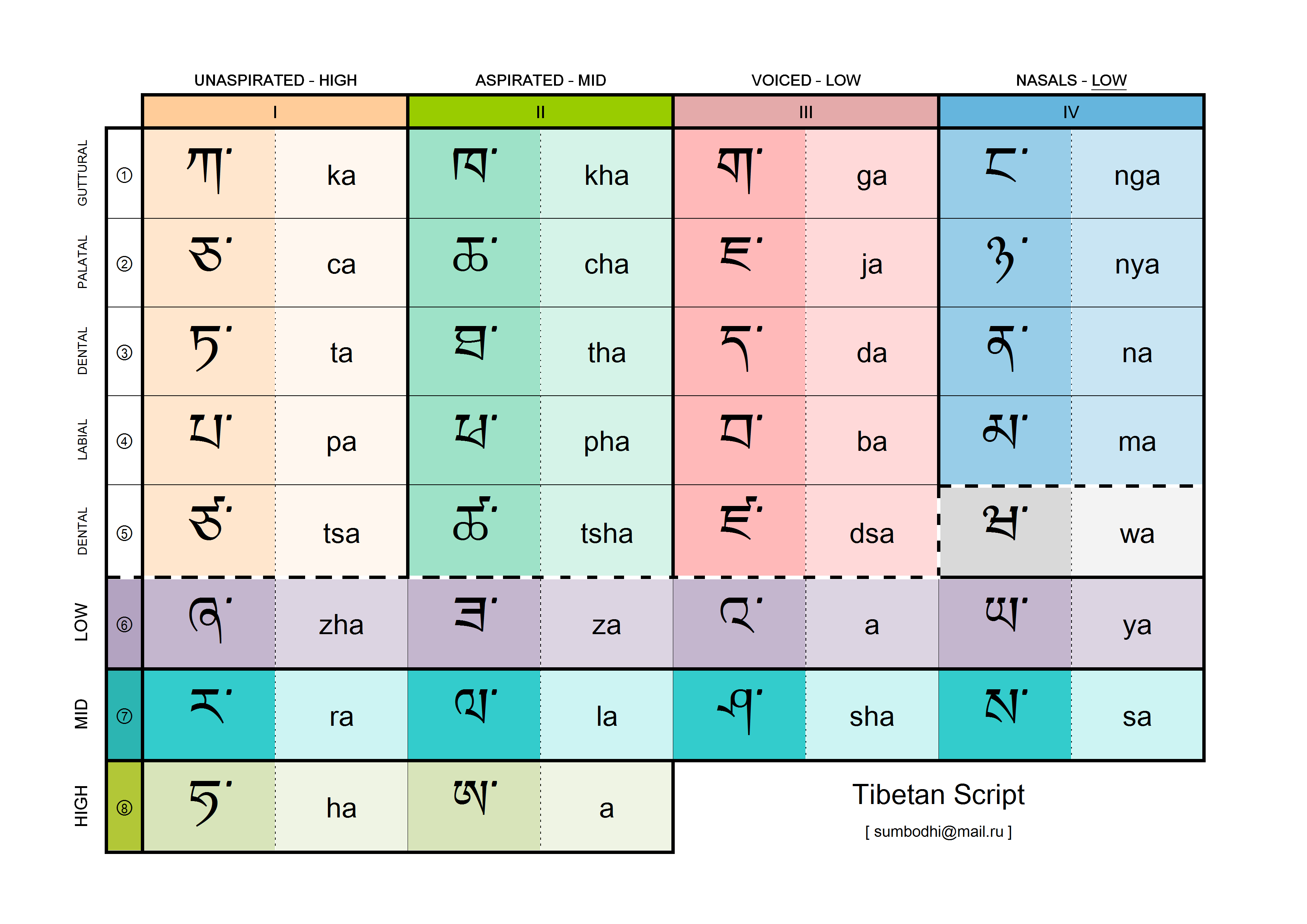 Tibetan script